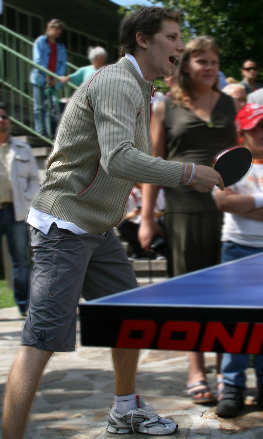 Table tennis player Robert Gardos at the presentation of the Austrian team for the 2008 Summer Olympics in China (Strandbad Gänsehäufel, Vienna)